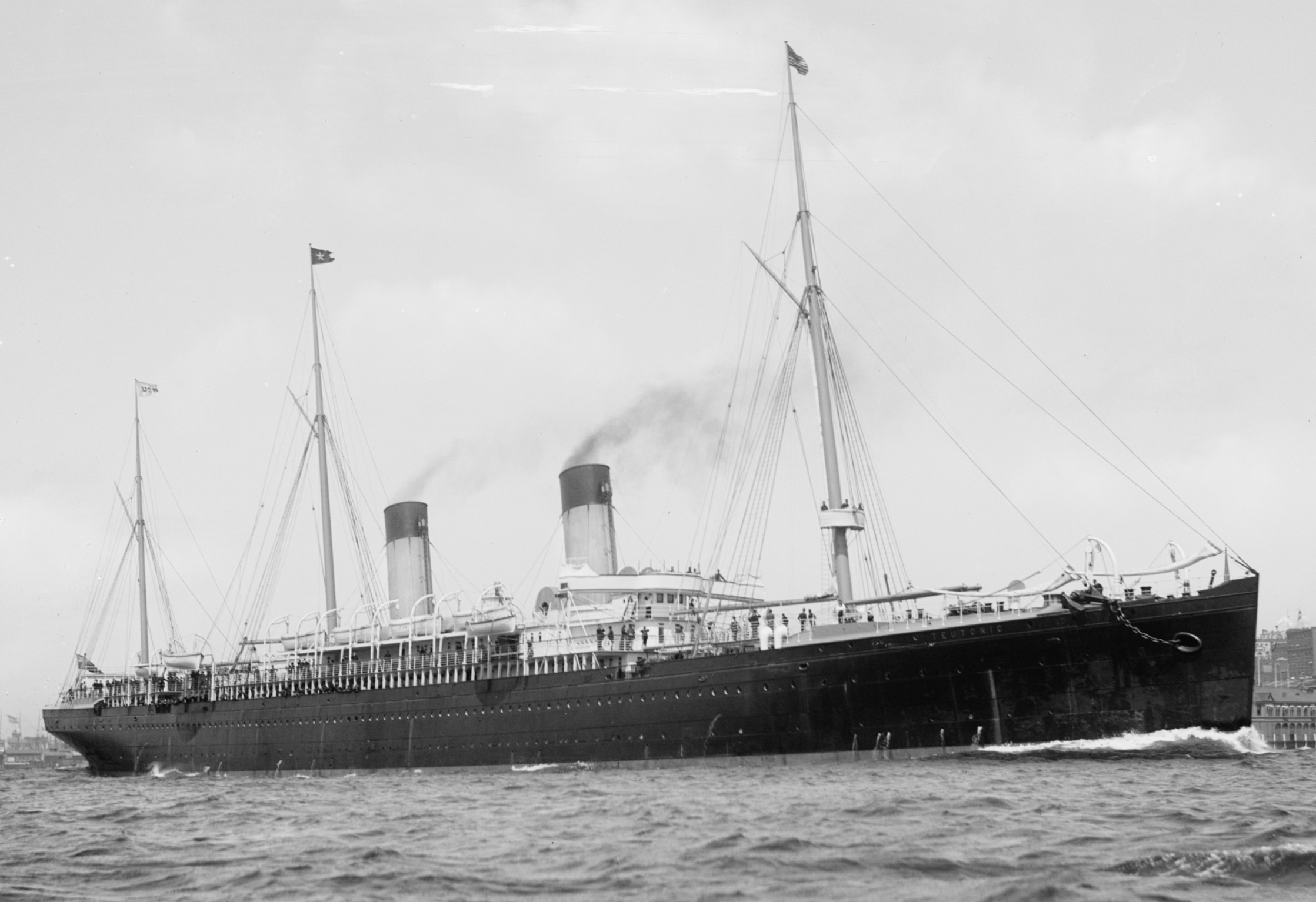 The SS Teutonic, between 1890 and 1900